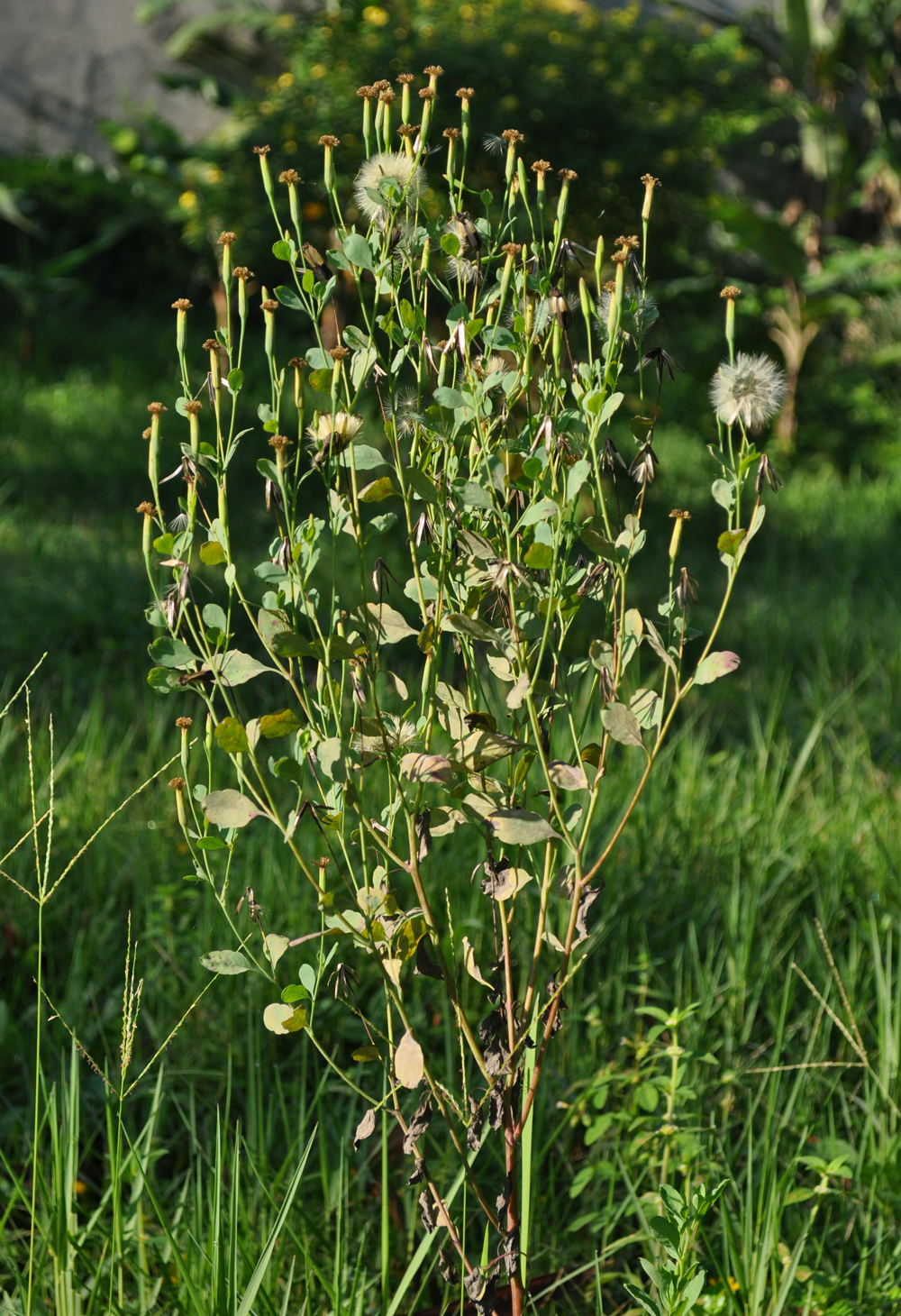 Porophyllum ruderale, habits. Darmaga, Bogor, West Java.